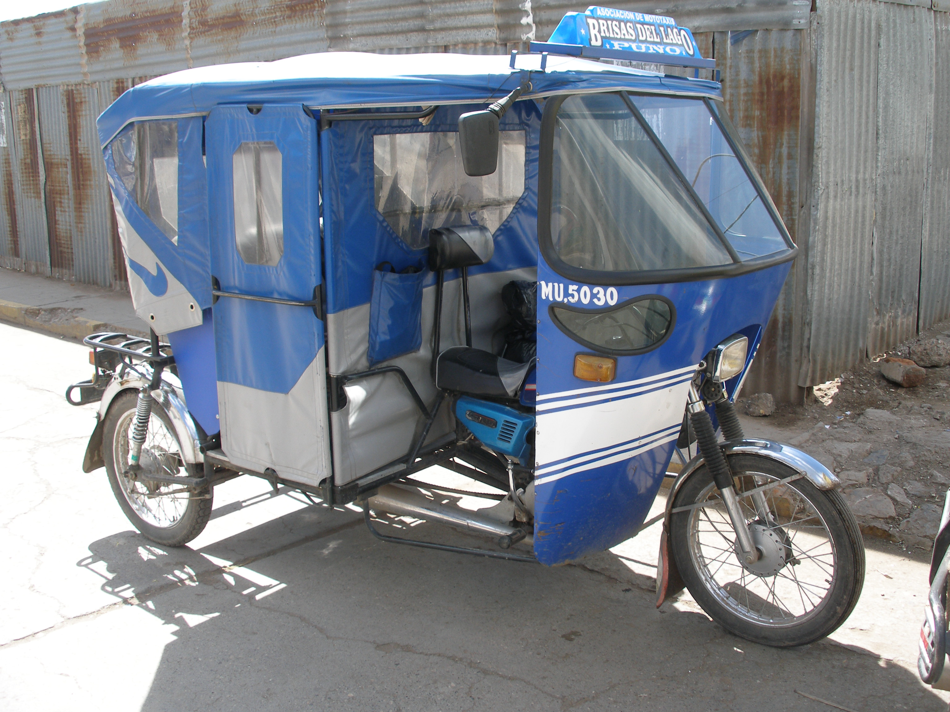 A "jinny" taxi in Peru